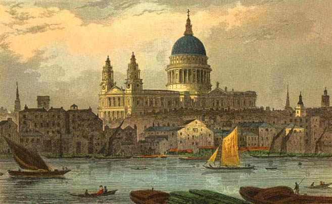 An early 19th century view across the Thames by Thomas Hosmer Shepherd. St Paul's dominated the London skyline until the mid 20th century.